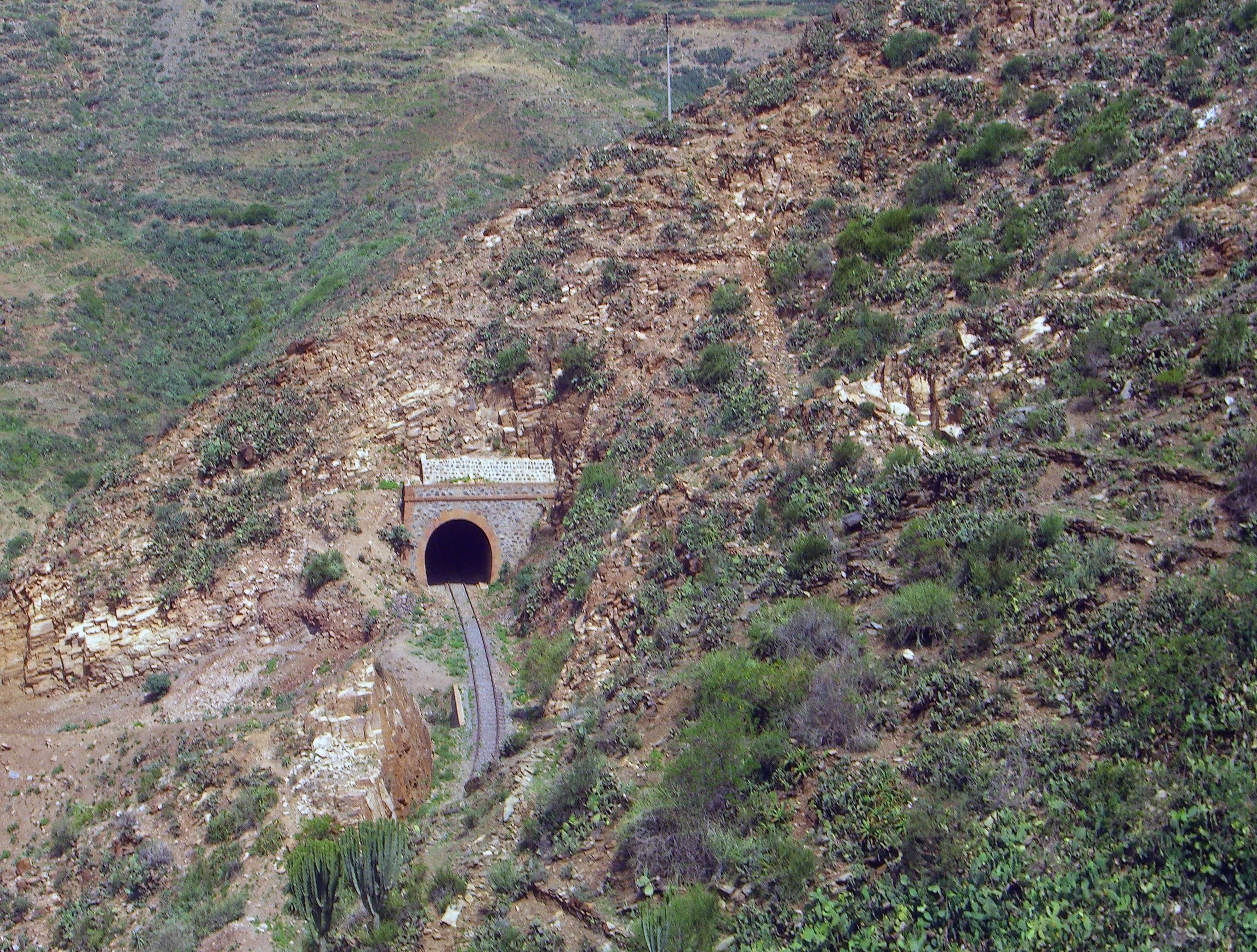 Train tunnels on the Eritrean high central plateau. Originally constructed by Italians, and still in use.